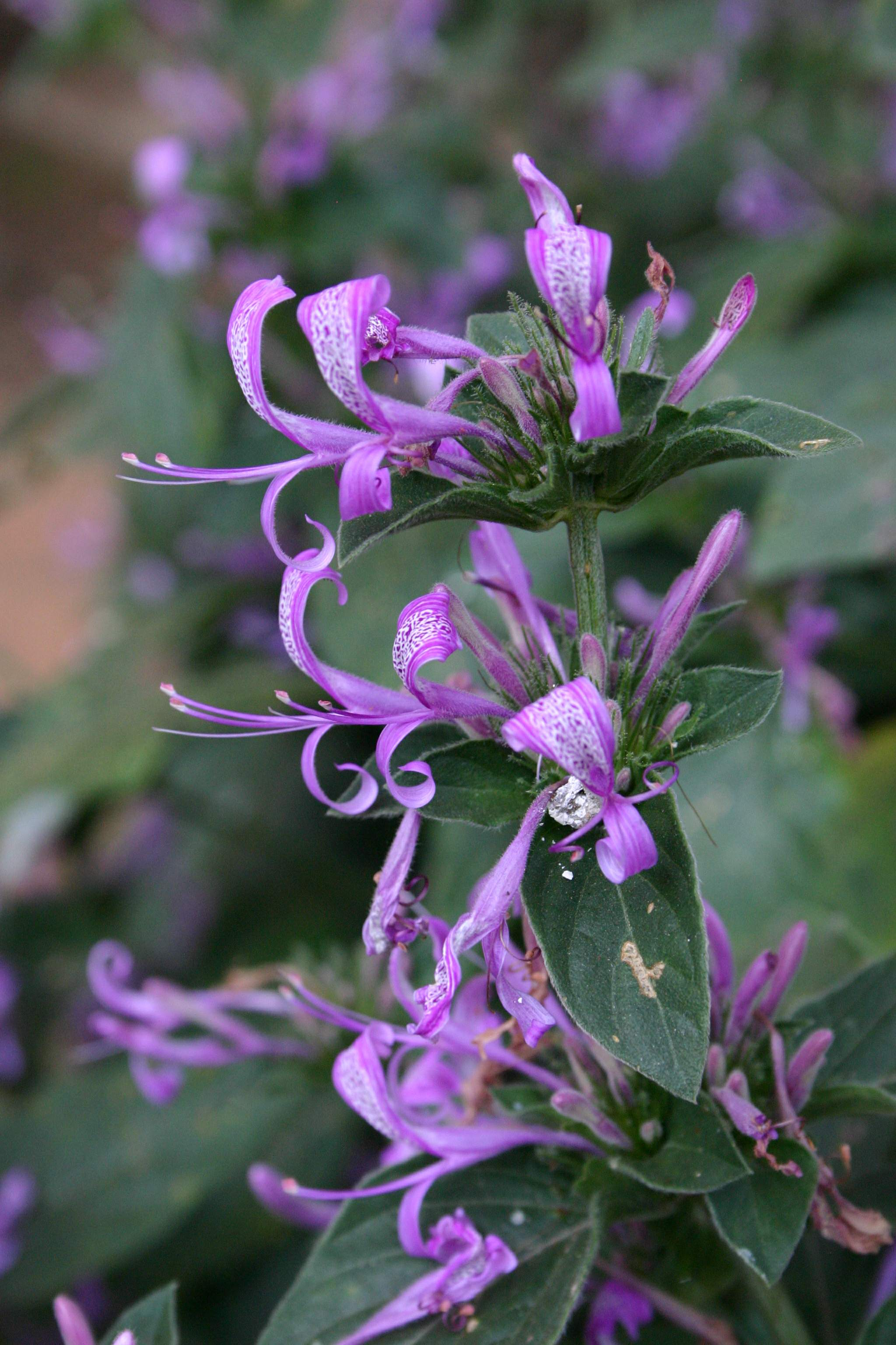 Ribbon Bush, Acanthus family, in a Johannesburg garden IsiZulu: idolo-lenkonyane-elimhlophe